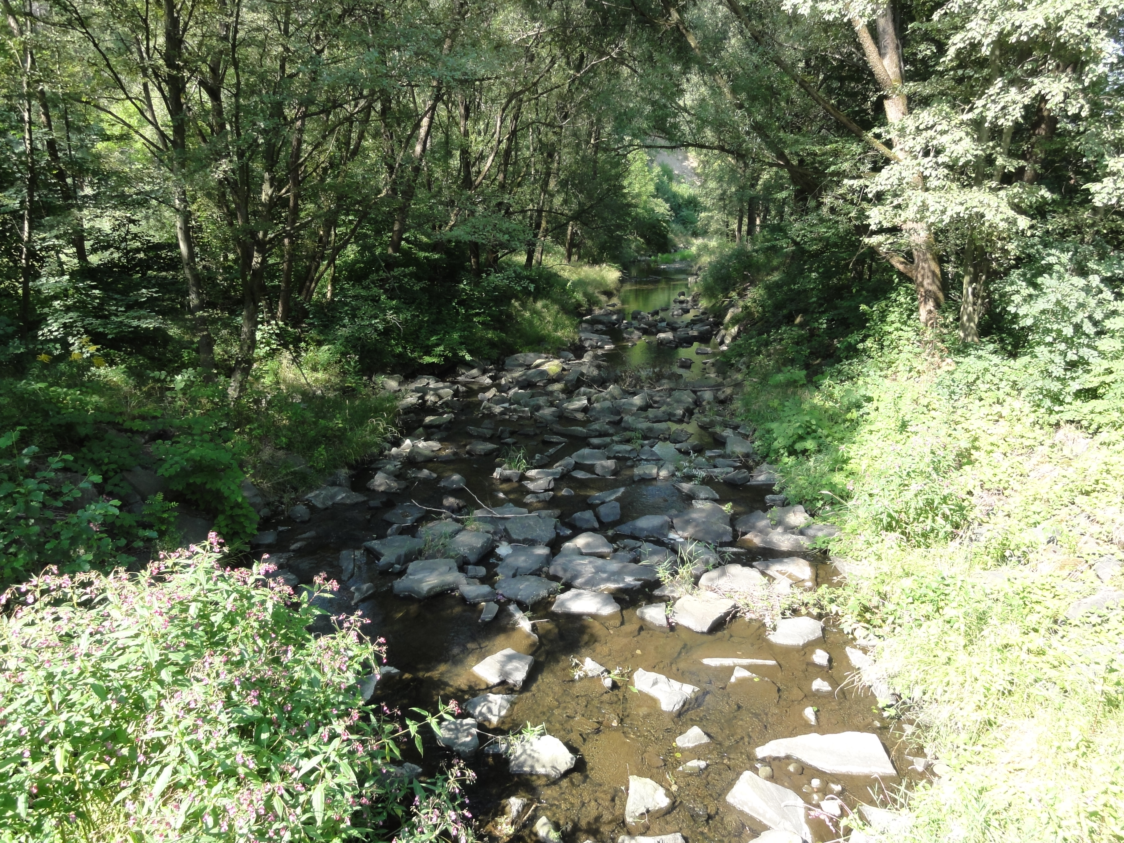 Ropičanka (Ropiczanka) River in Ropice